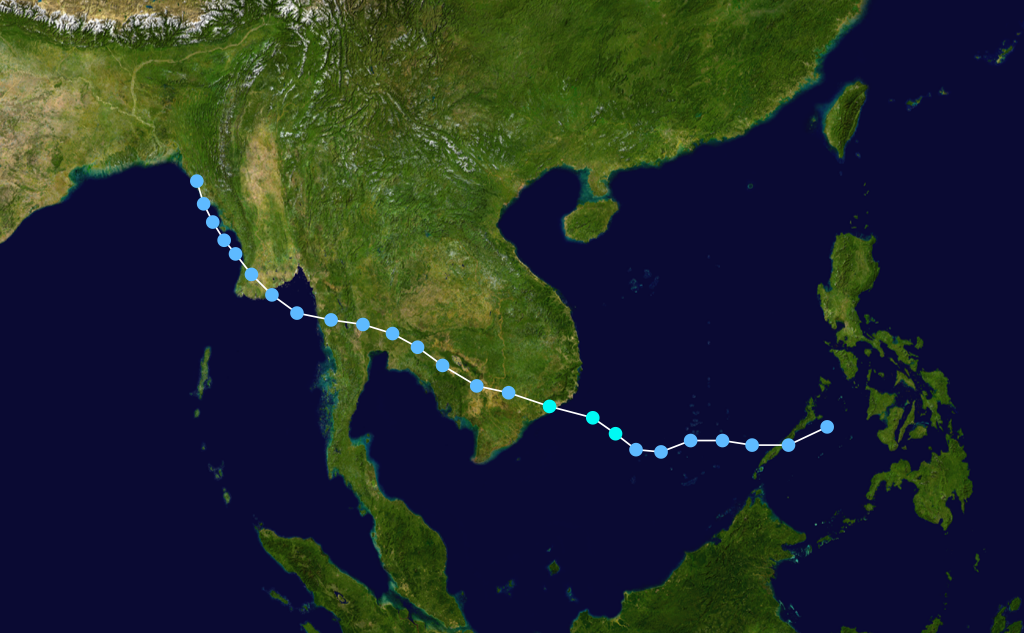 Tropical Storm Kim (1983) track. Uses the color scheme from the Saffir-Simpson Hurricane Scale.